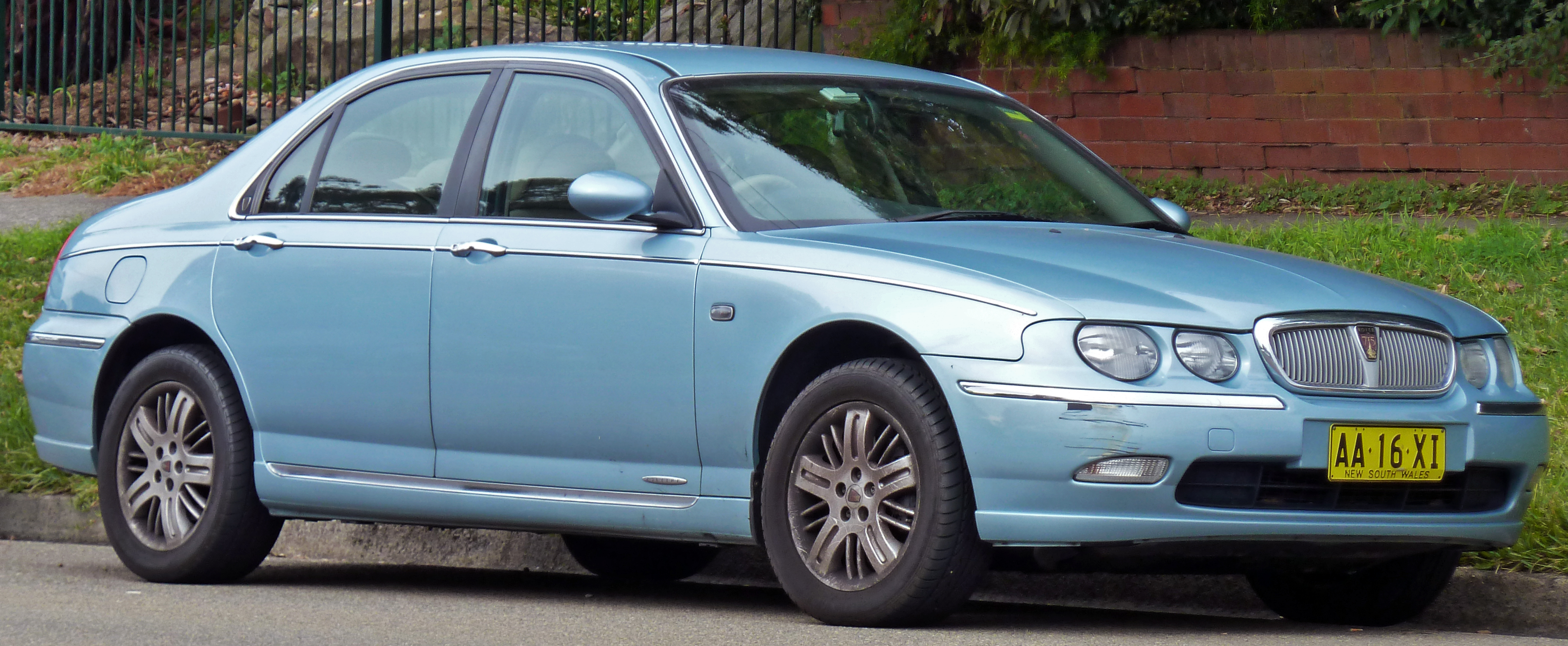 2001 Rover 75 Connoisseur sedan. Photographed in Woolooware, New South Wales, Australia.